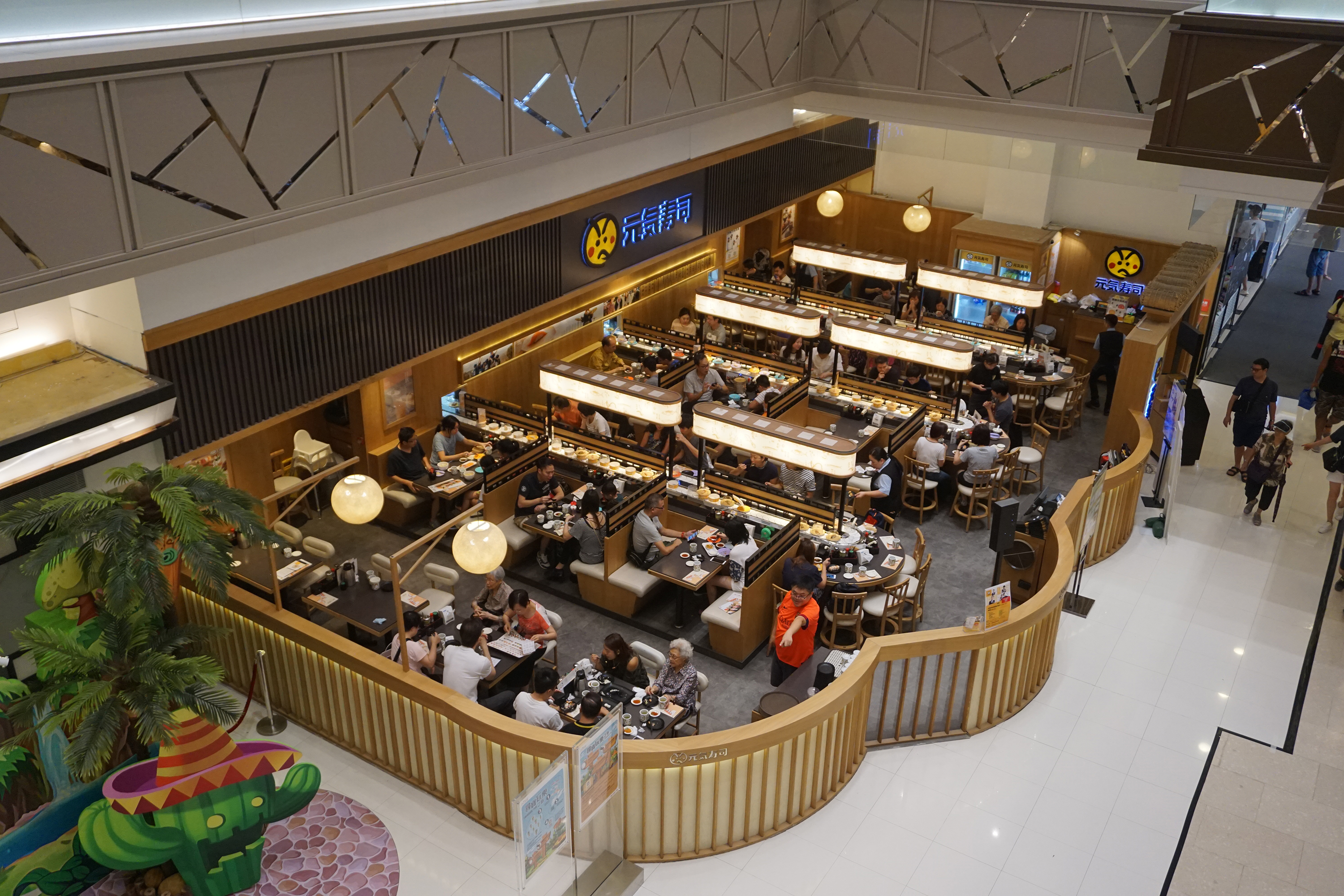 Genki Sushi in Heng Fa Chuen, Hong Kong.